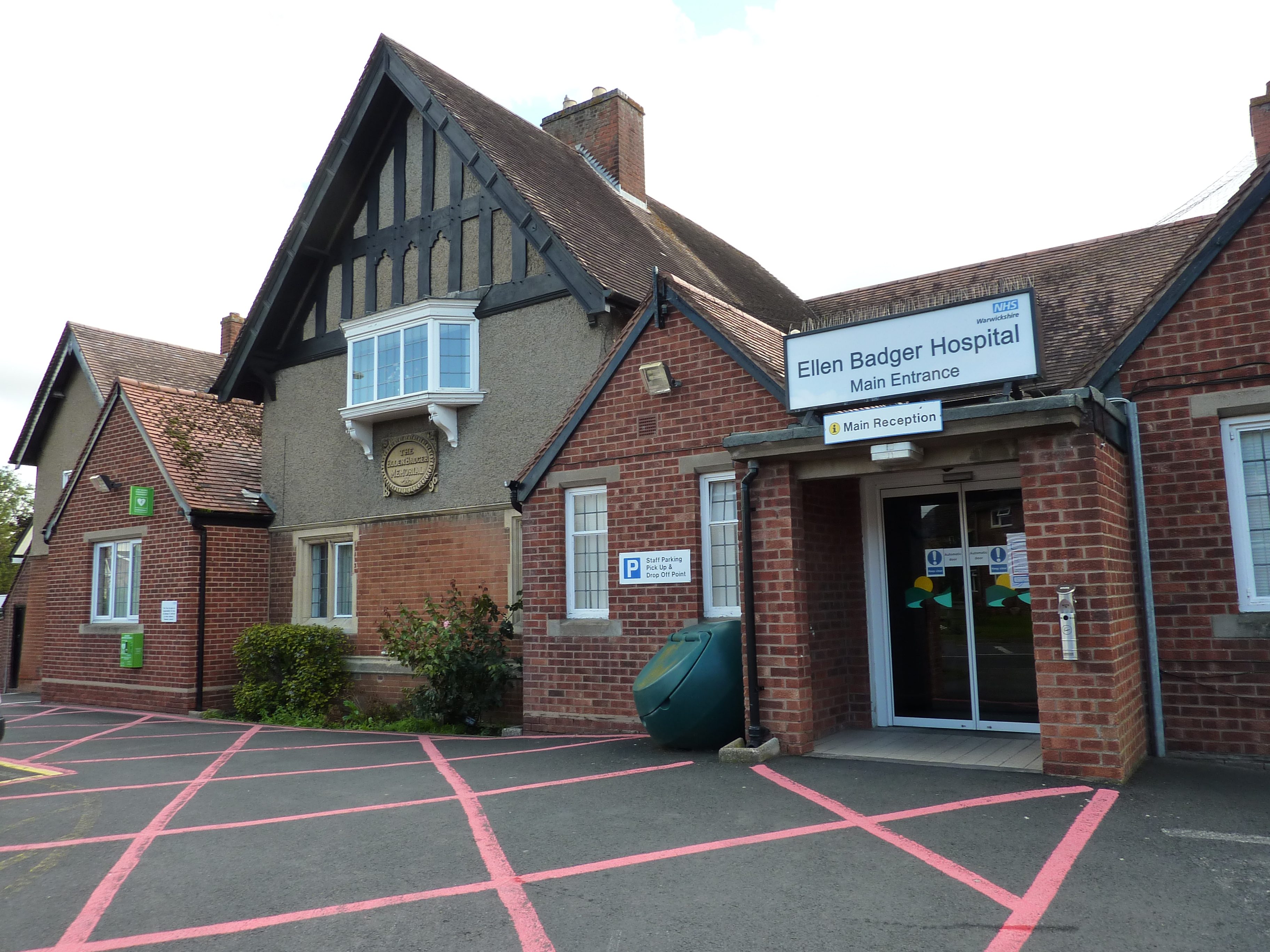 The Ellen Badger is a small community NHS hospital located within the town of Shipston on Stour in Warwickshire. It is operated and funded by the South Warwickshire Primary Care Trust.